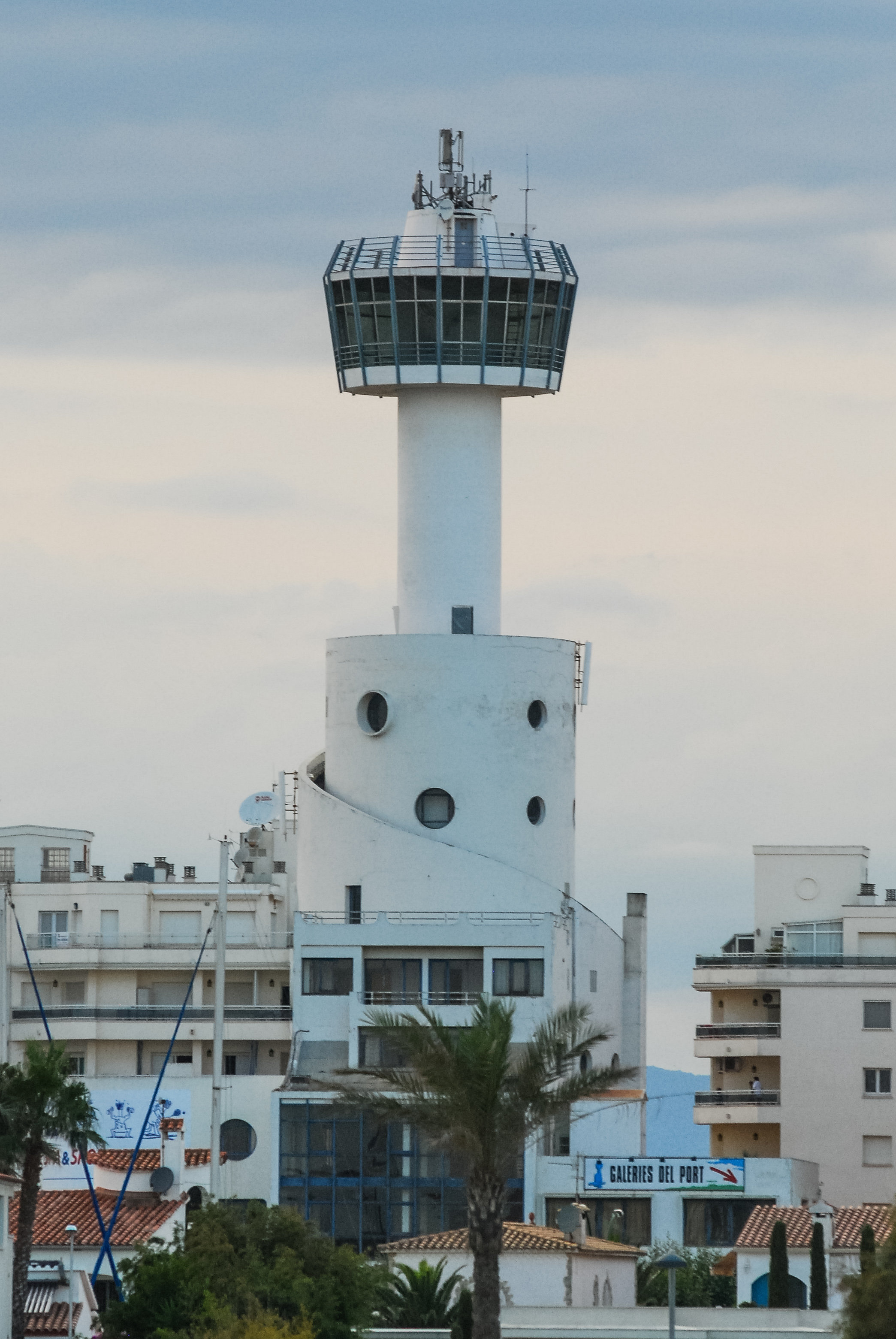 A landmark of Empuriabrava, the Torre Panoramica in the yacht harbor